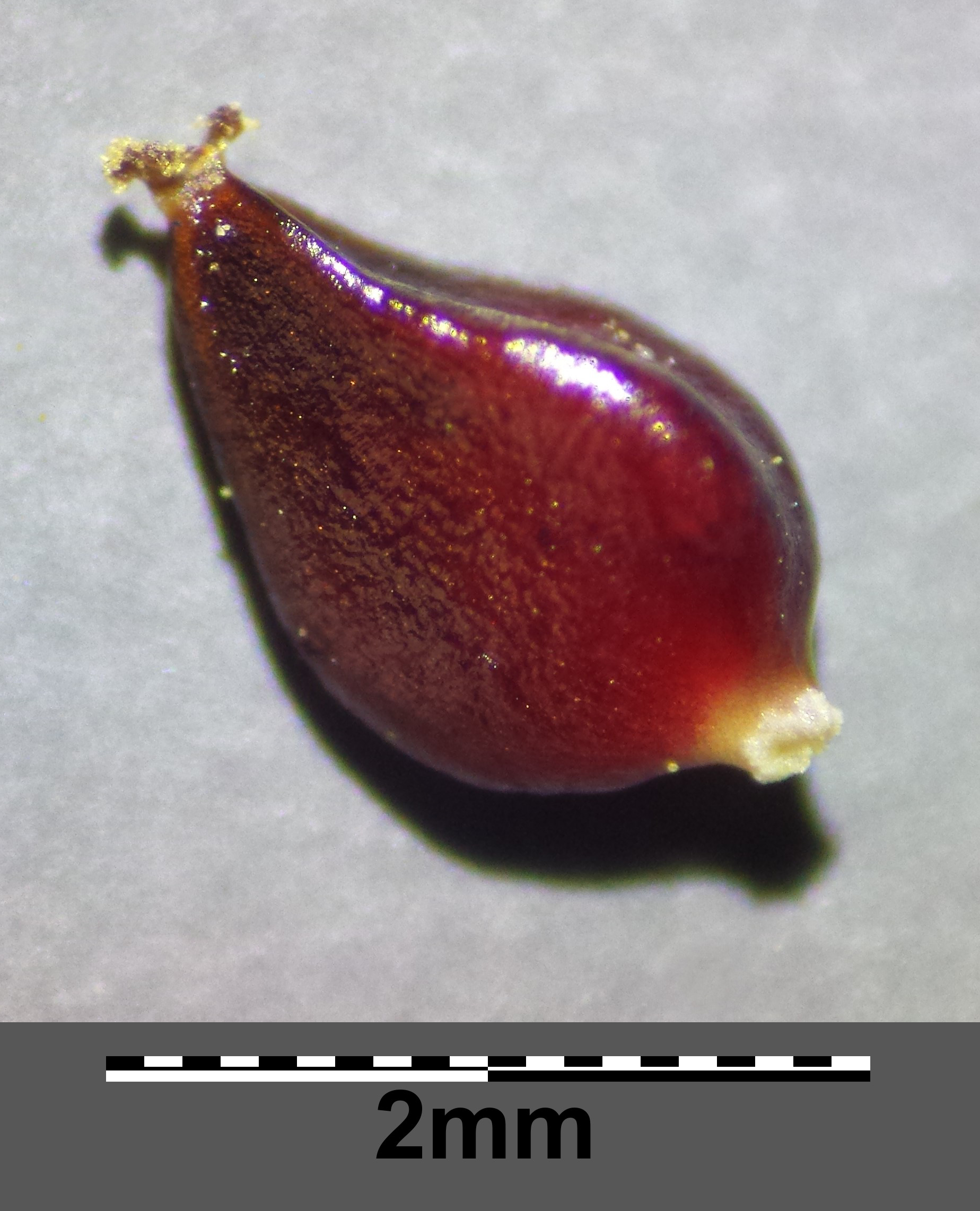 Fruit Taxonym: Polygonum aviculare subsp. depressum (s. lat.) ss Fischer et al. EfÖLS 2008 ISBN 978-3-85474-187-9 Location: Bodenstedtgasse, Vienna-Floridsdorf - ca. 160 m a.s.l. Habitat: ruderal area